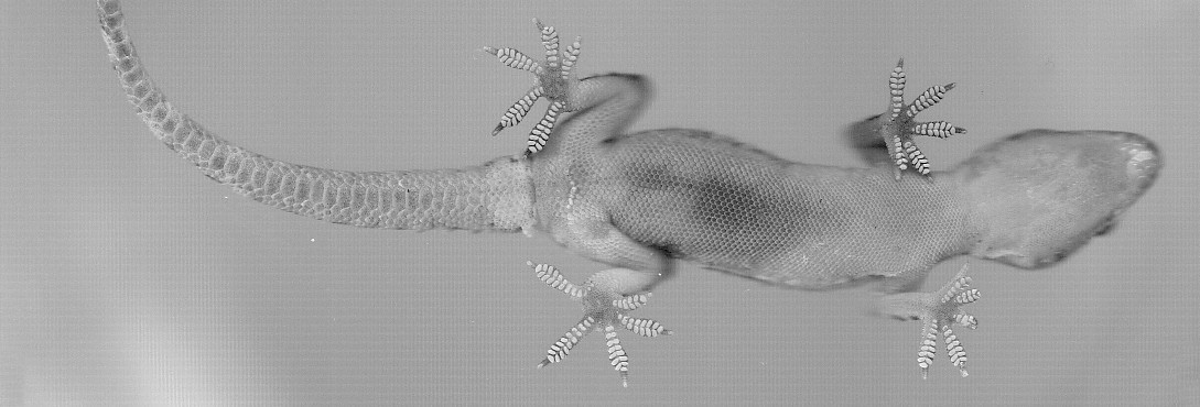 A scan of the ventral side of a Mediterranean house gecko, showing good detail of the lizard species' skin and toe pads.